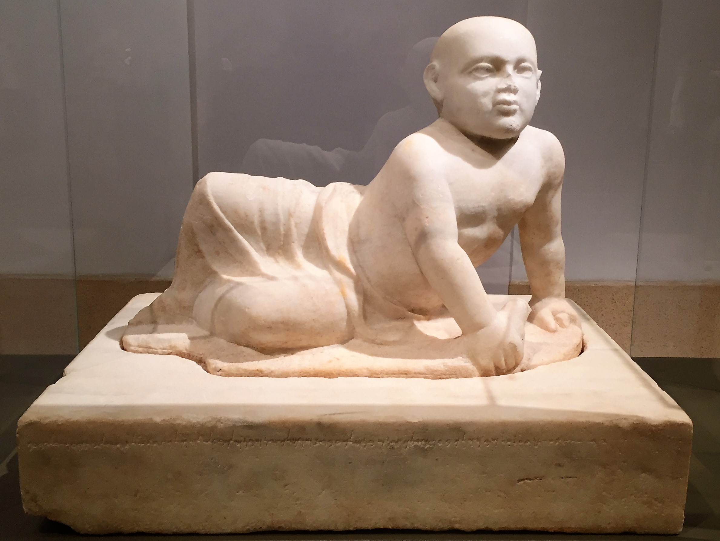 Statuette of a child with a Phoenician inscription on its socle that reads "This statuette was given by Baalshillem, son of king Banaa, king of the Sidonians, son of king Baalshillem, king of the Sidonians, to his lord Eshmun of the spring Yd[l]al. May he bless him" Marble, Sanctuary of Eshmun - Bustan esh Sheikh (near Sidon), 5th c. B.C.